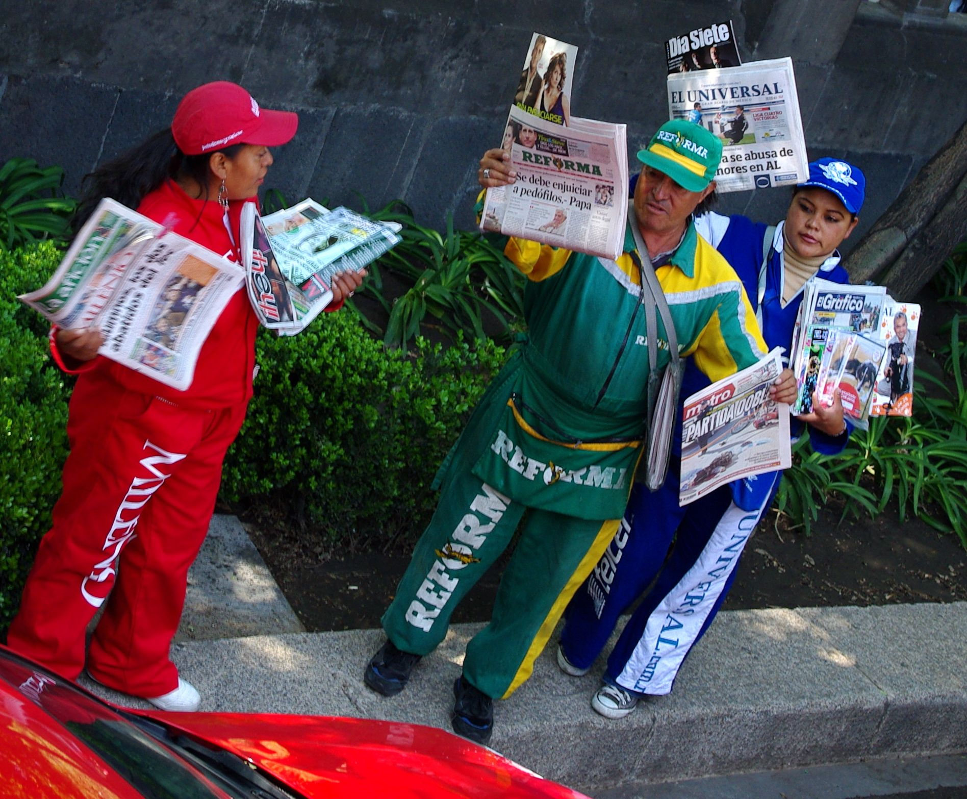 Three vendors selling newspapers on a Mexico City street in March 2010.